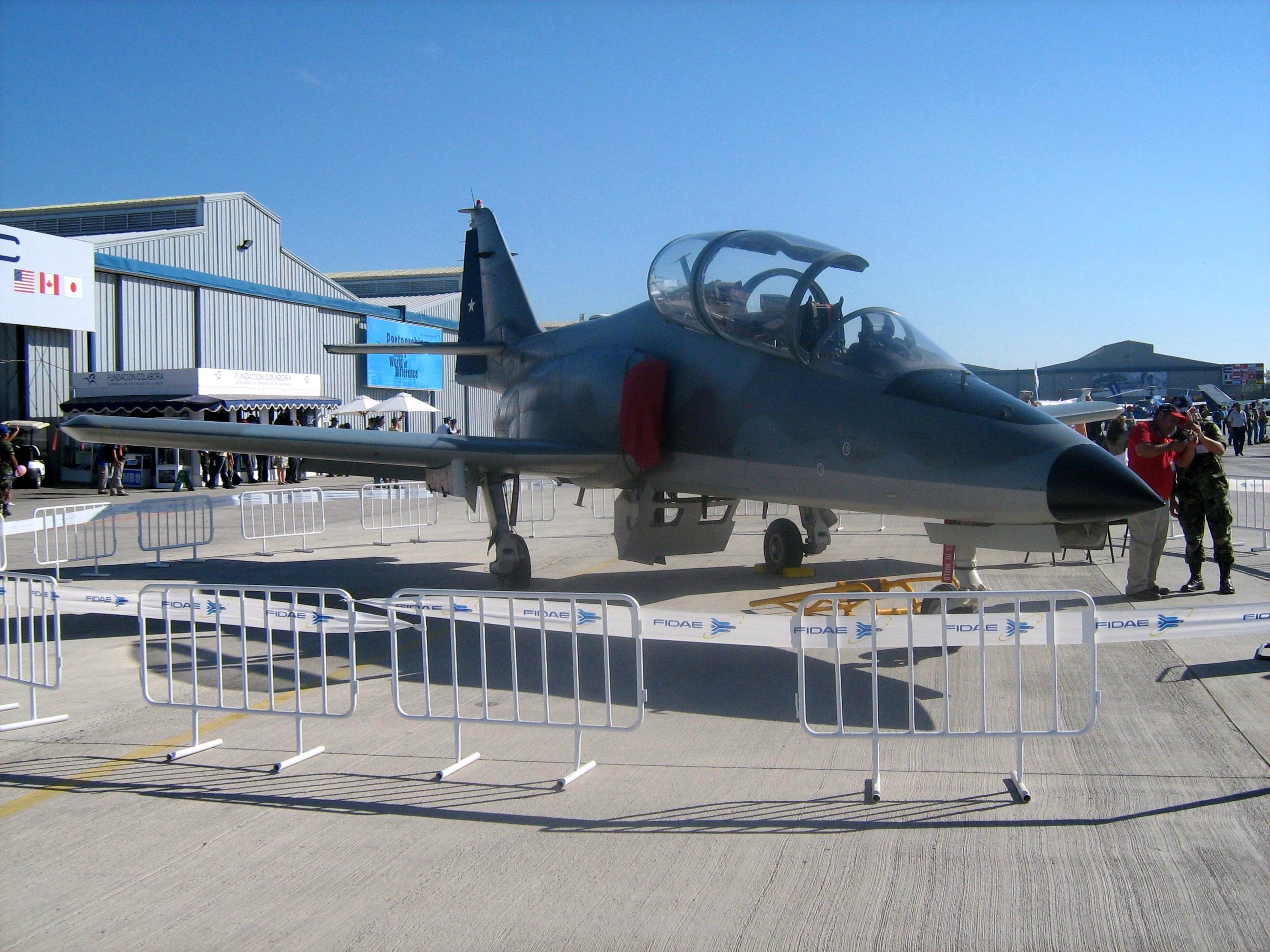 CASA/ENAER A-36CC, Attack aircraft of the Chilean airforce